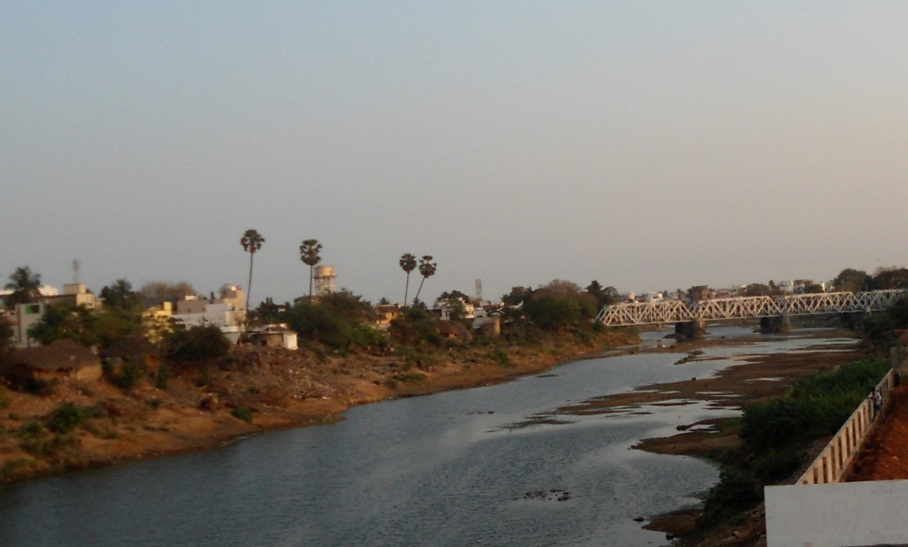 Tandava river near Tuni, divides east godavari and Visakha districts